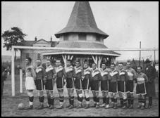 The champion football group of Dorogi AC. in 1936